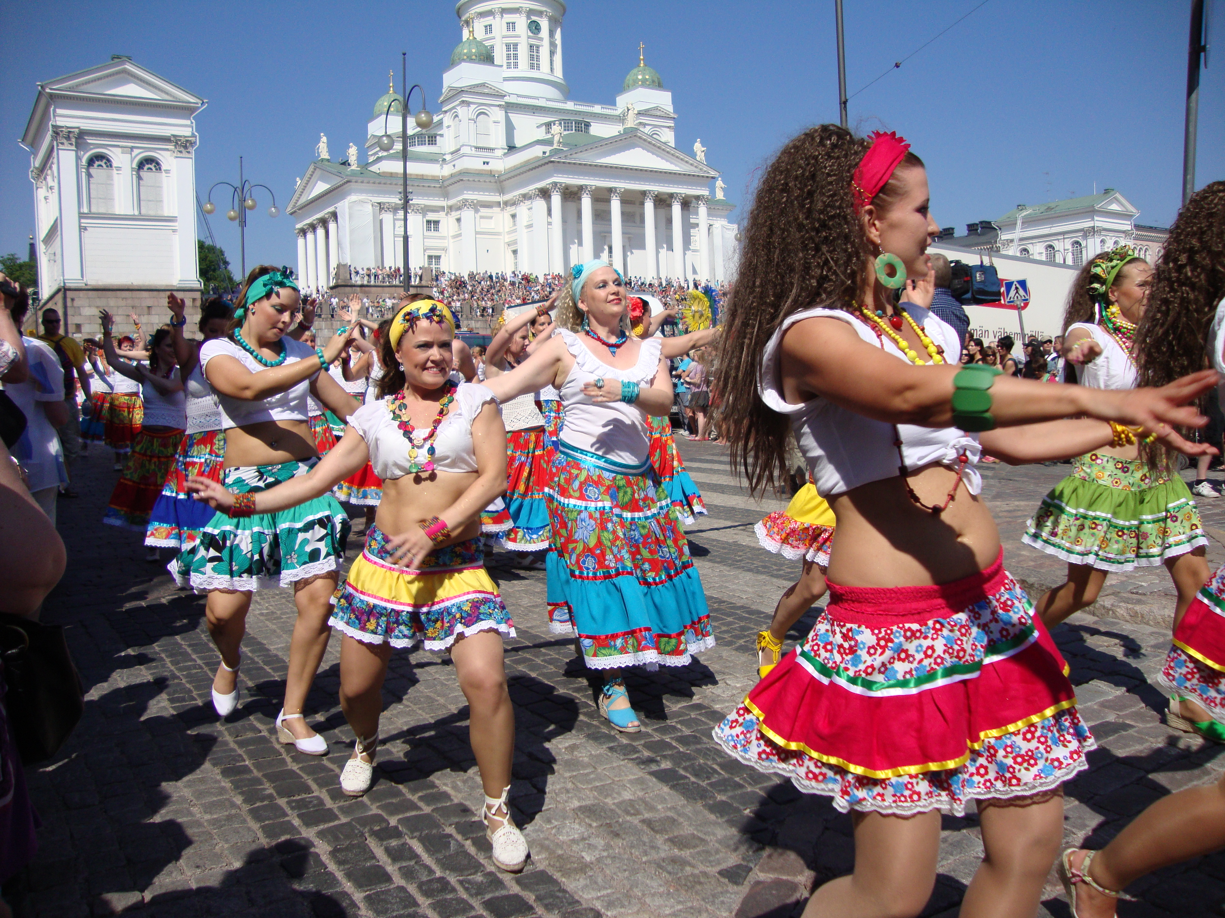 Dancers of Helsinki Samba Carnaval 2011 - Procession started from Senaatintori Square.